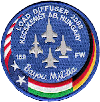 159th Fighter Wing Exercise Load Diffuser 2008 - Patch